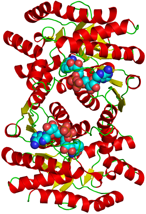 Malate dehydrogenase showing attached sugars.